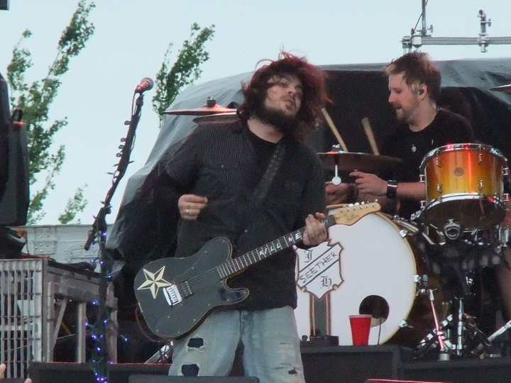 This is a picture of Shaun Morgan live with Seether at Lazerfest, in Indianola, Iowa.